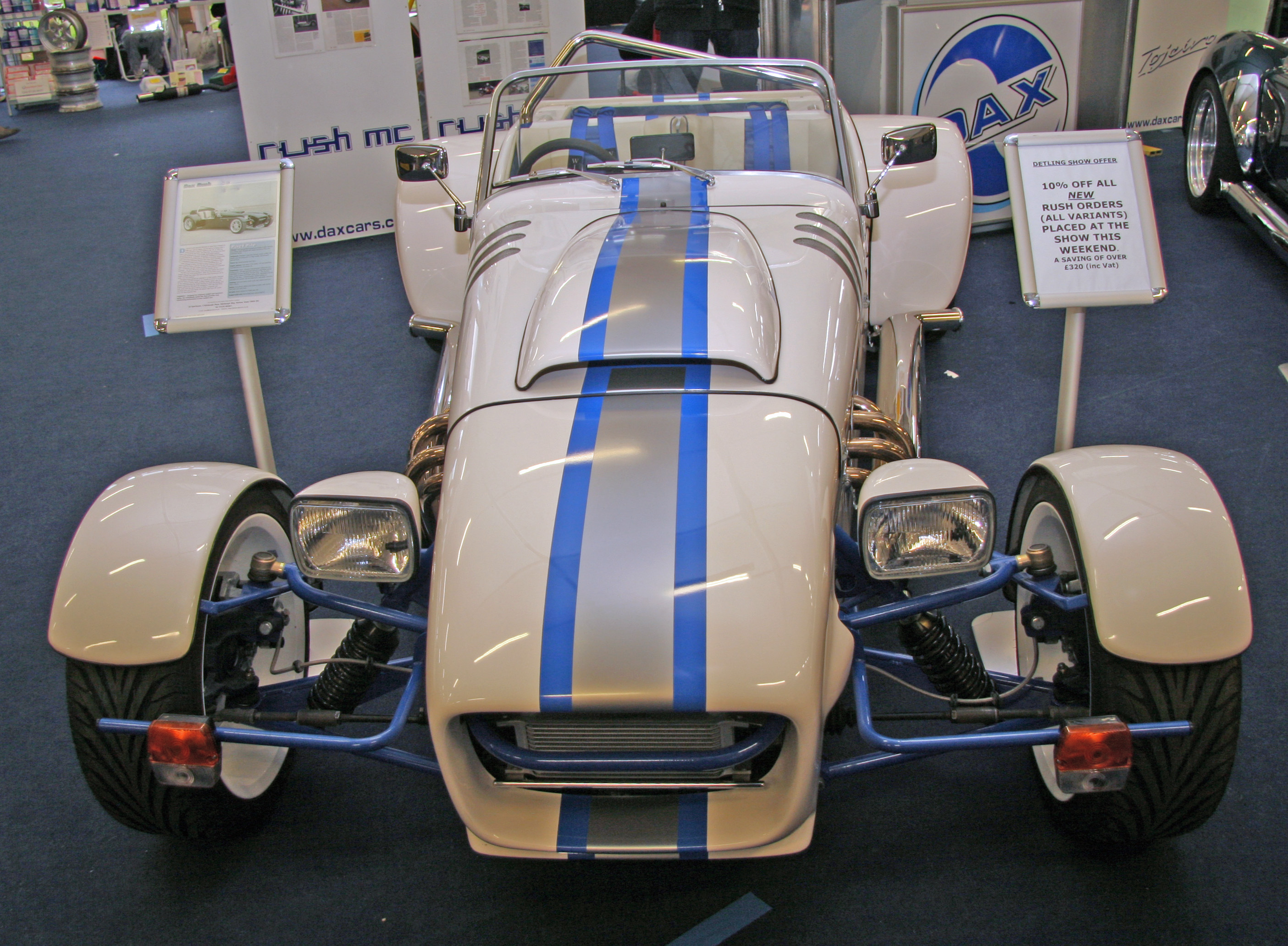 Dax Rush V8